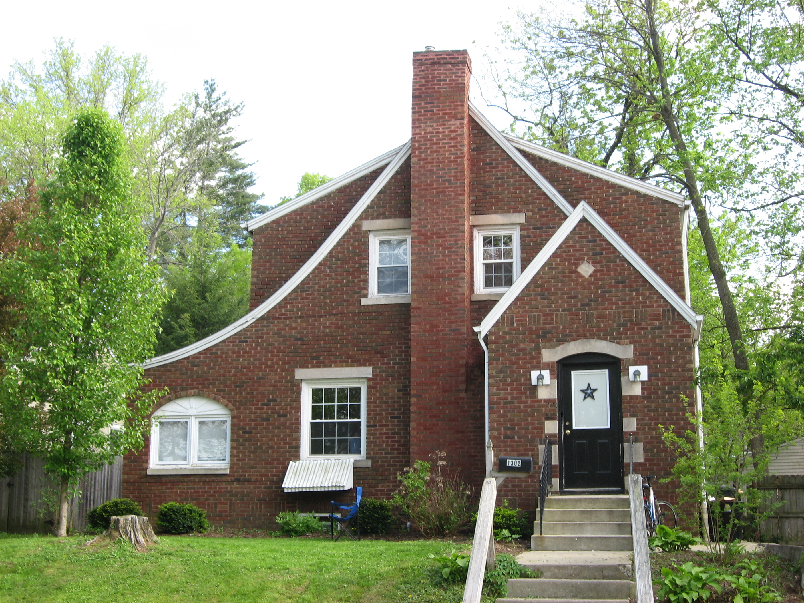 Front of the house located at 1302 E. Hunter Avenue in Bloomington, Indiana, United States. Built in 1940, it is part of the locally-designated Elm Heights Historic District.